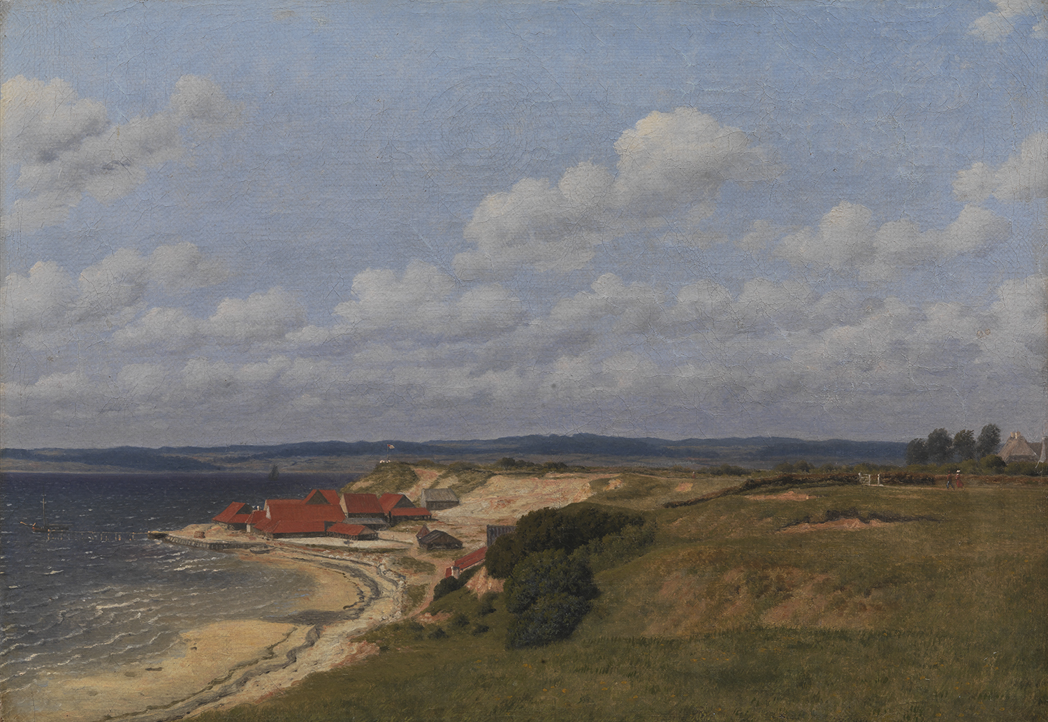 Renbjærg Tileworks by Flensburg Fiord. Original at Category:Statens Museum for Kunst